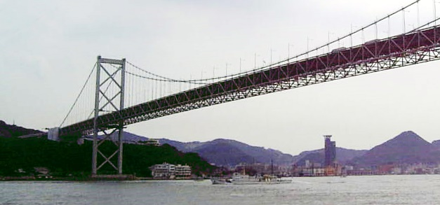 Kanmonkyo Bridge. Smaller version of Image:Kanmonkyo-mimosuso.JPG. Cropped, rotated, exposure adjusted, color adjusted, power-line digitally retouched in upper left corner. Original photographer was User:Shinkansen.